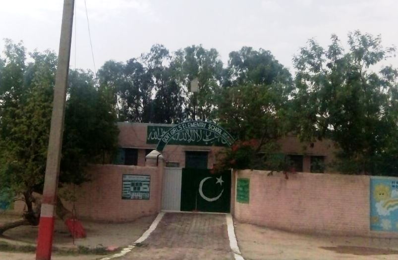 School